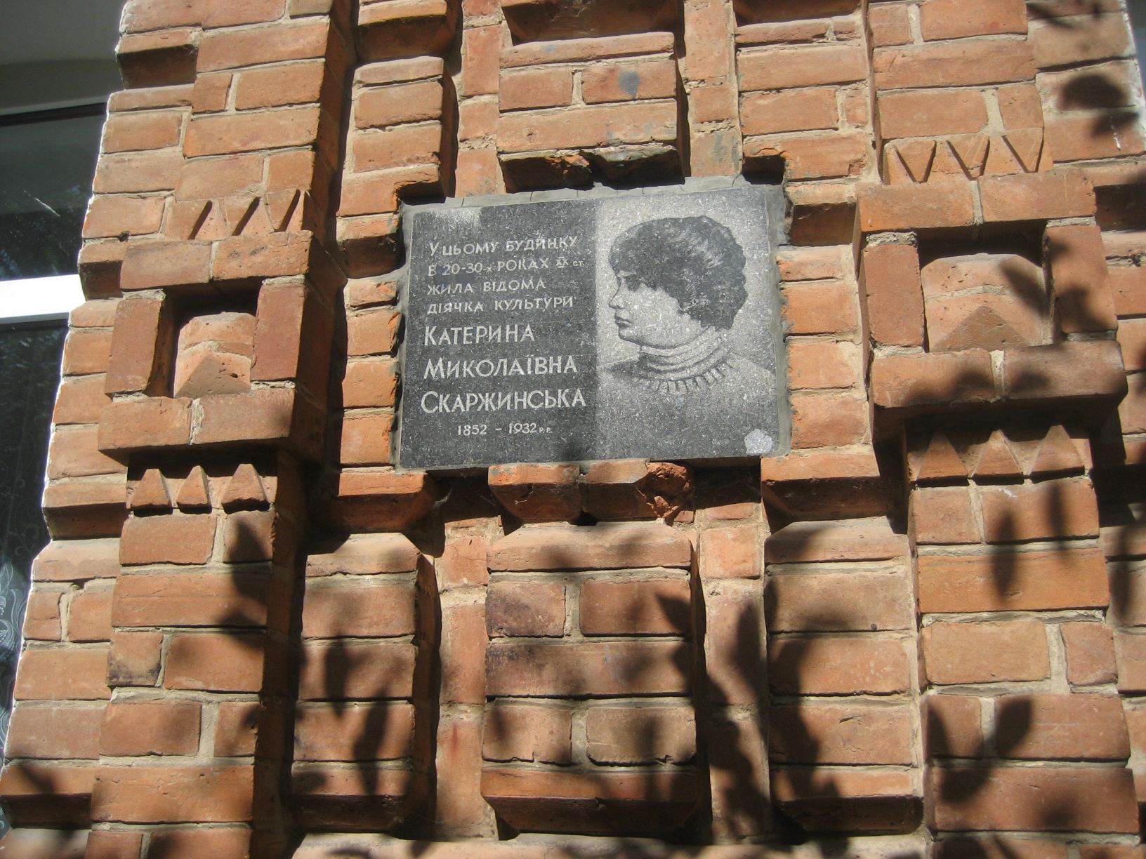 Plaque on the wall of Gogolya 10, Lubny